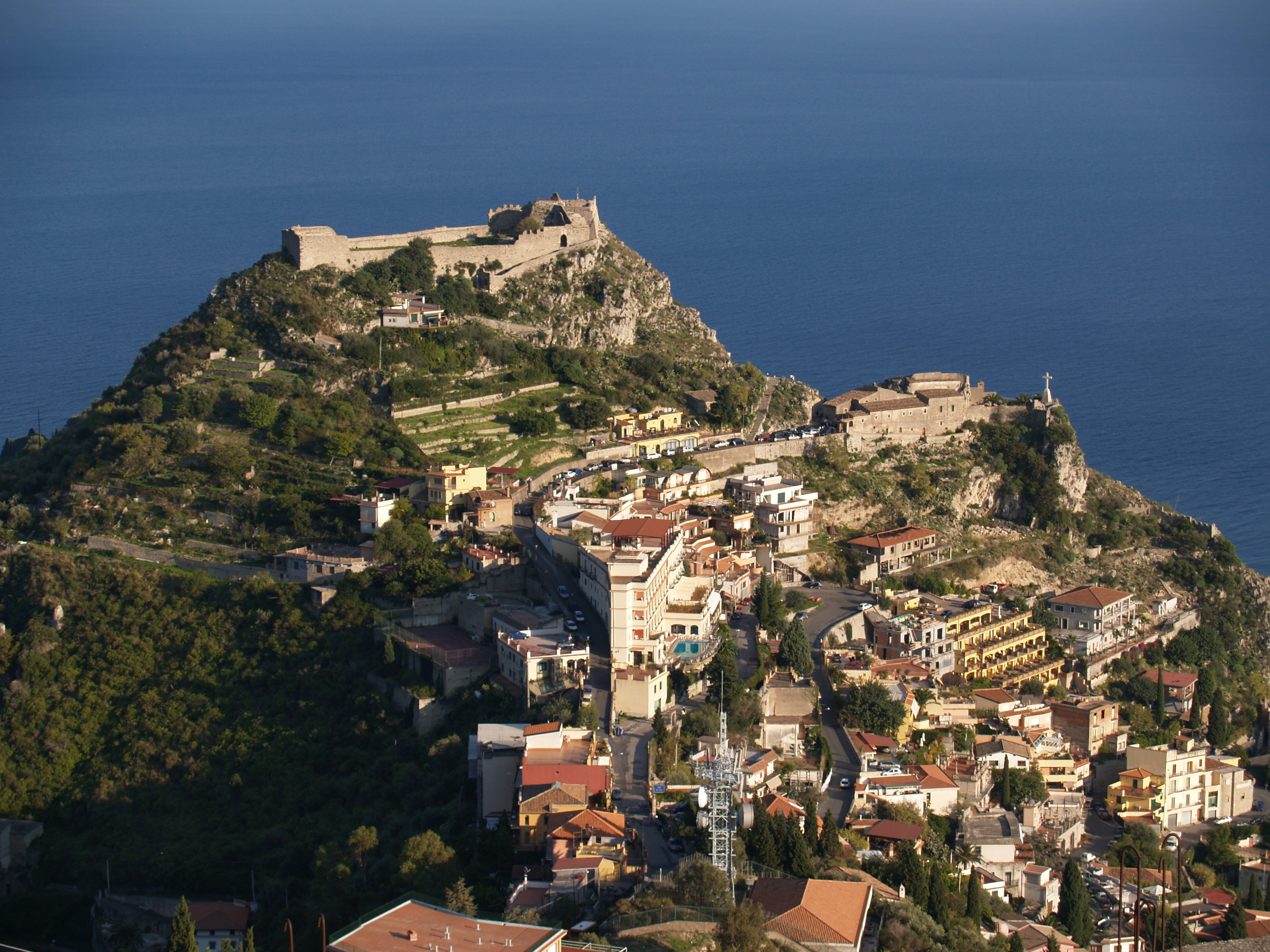 The ancient Castello (left) and the chapel of Madonna della Rocca (right) at Taormina, Sicily